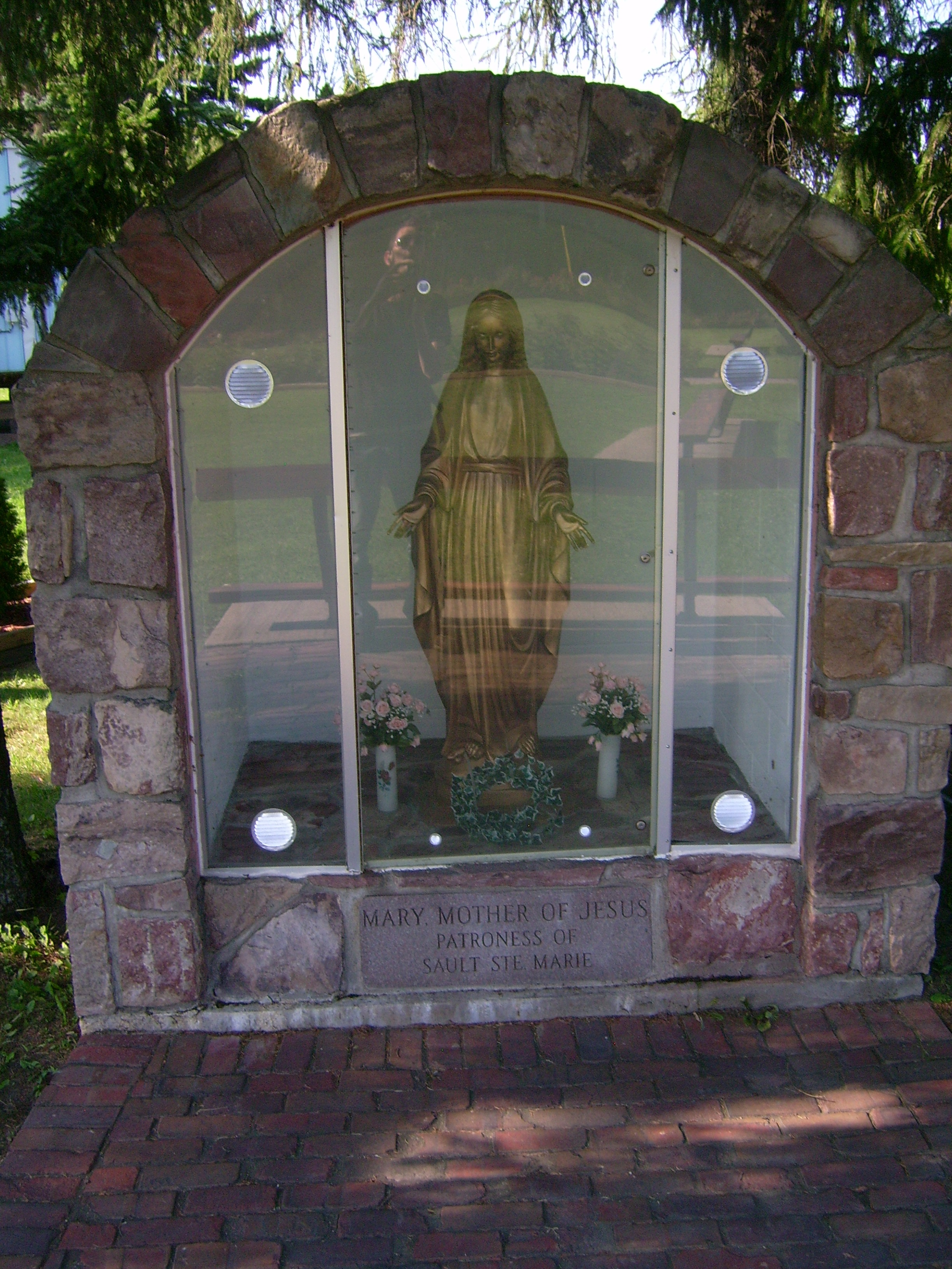 Grotto for Mary Mother of Jesus, Patroness of Sault Ste. Marie.